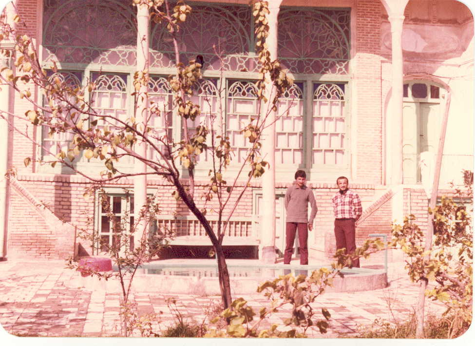 Mostafa & Rahim Saderi in the garden of this building